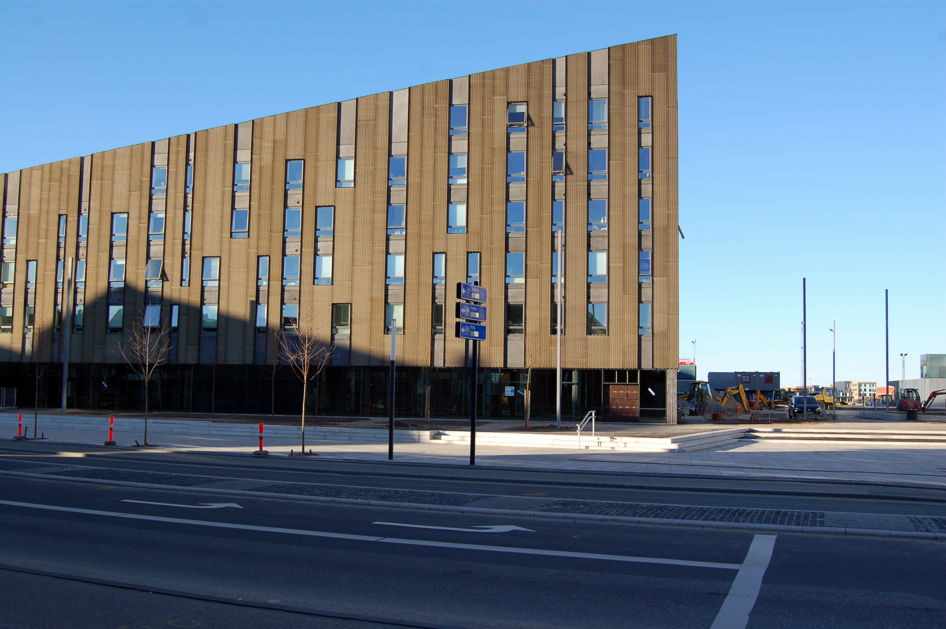 Larsen Waterfront, youth housing in Aalborg